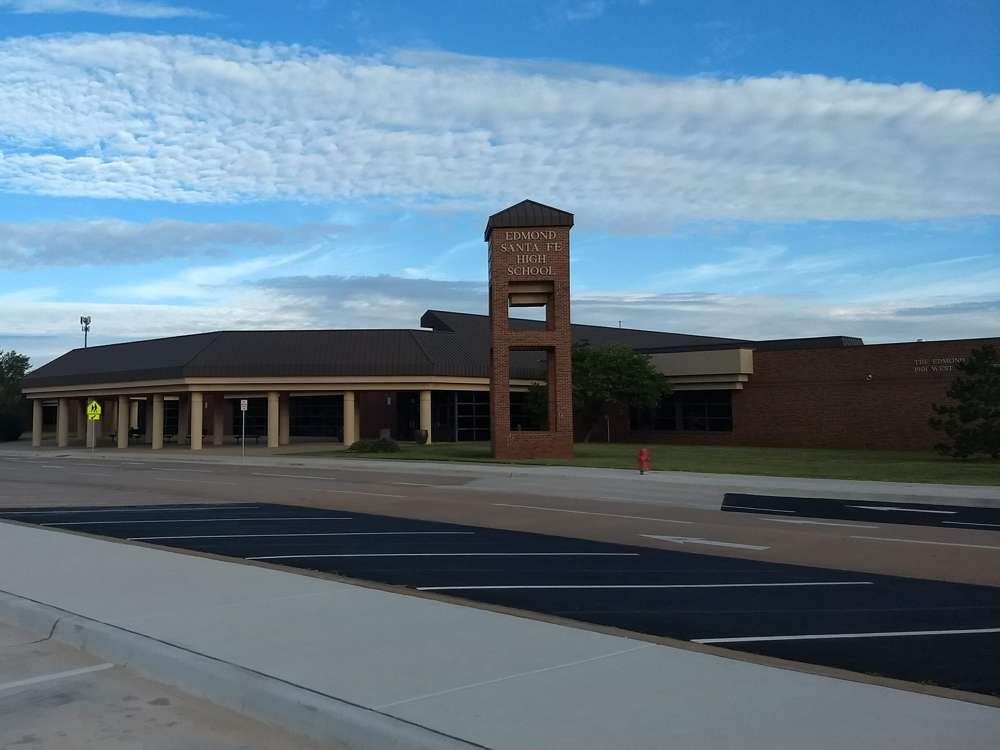 Santa Fe High School main entrance in Edmond, Oklahoma as viewed from the South